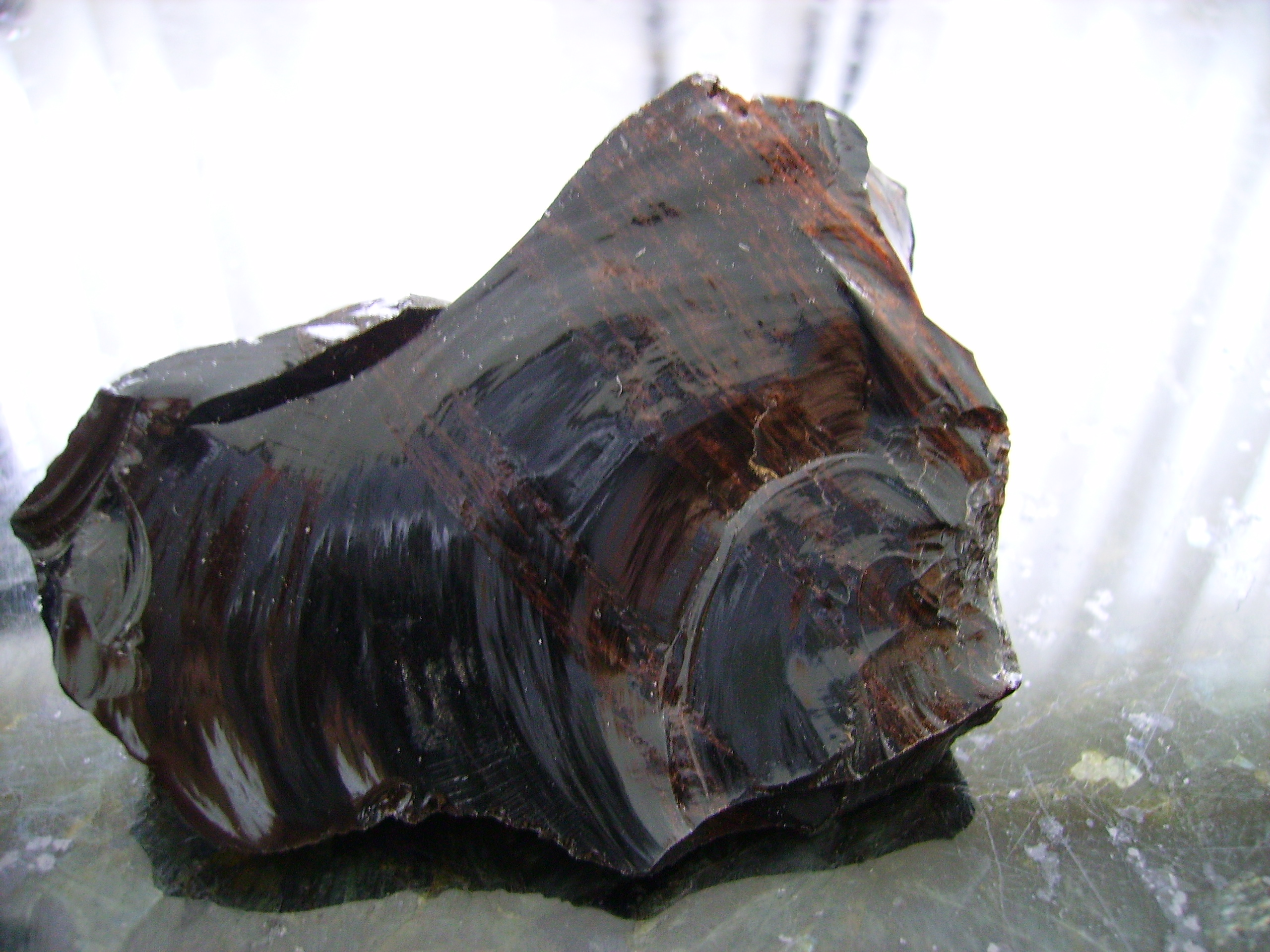 Conchoidal fracture, illustrated by the broken surface on a piece of obsidian (volcanic glass).